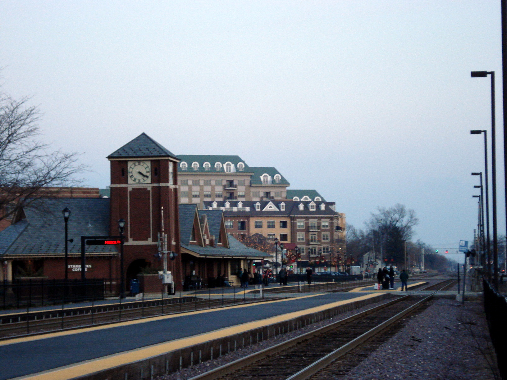 Palatine Metra Station from west of Smith Street looking east. Photographed by Sebastian Sierotnik